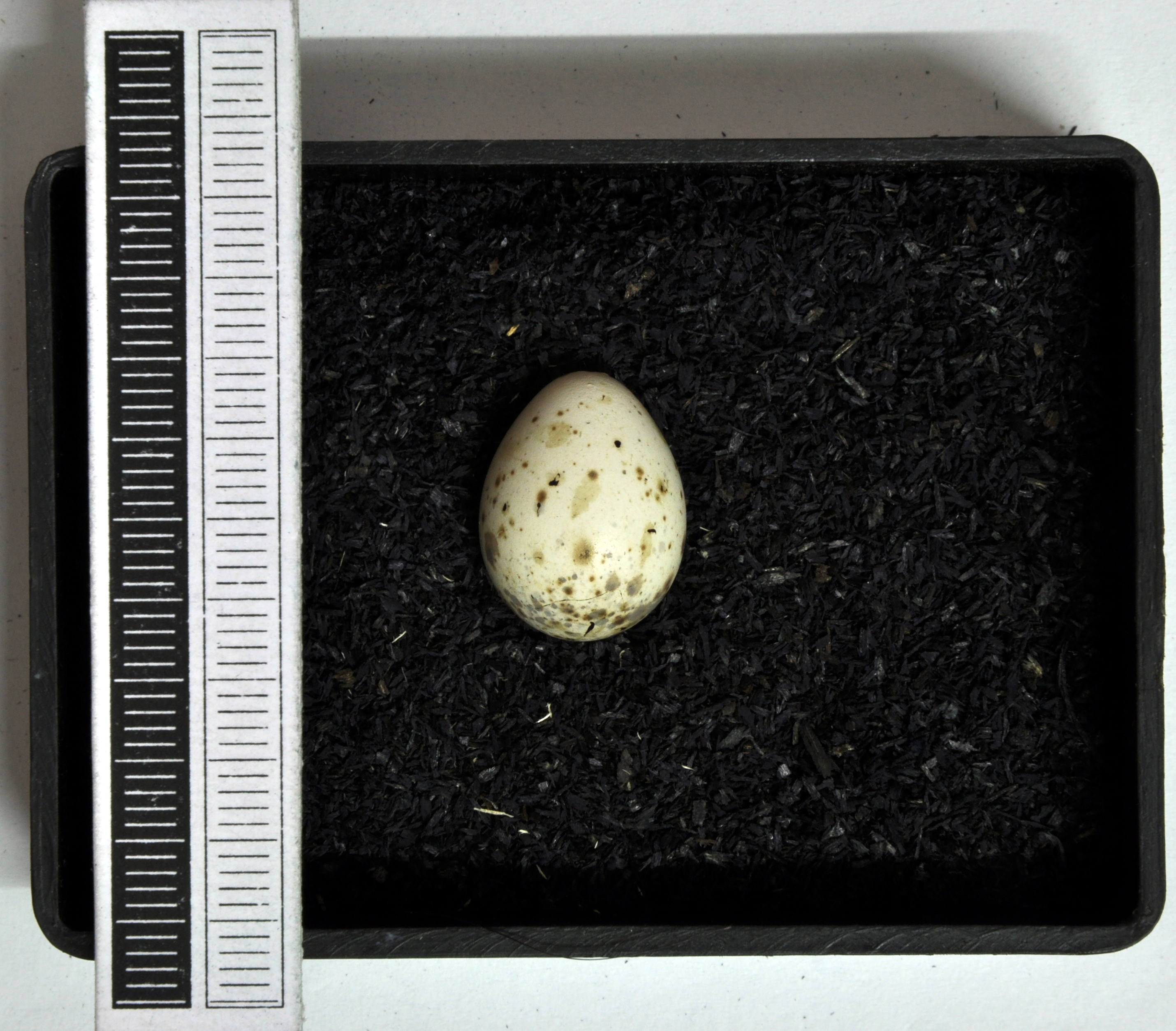 Lesser whitethroat Sylvia curruca, egg, Coll. Museum Wiesbaden, Origin: Åmål, Sweden, 27.05.1962, leg. W. Abelmann